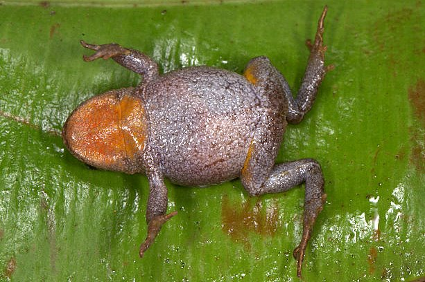 Bryophryne hanssaueri